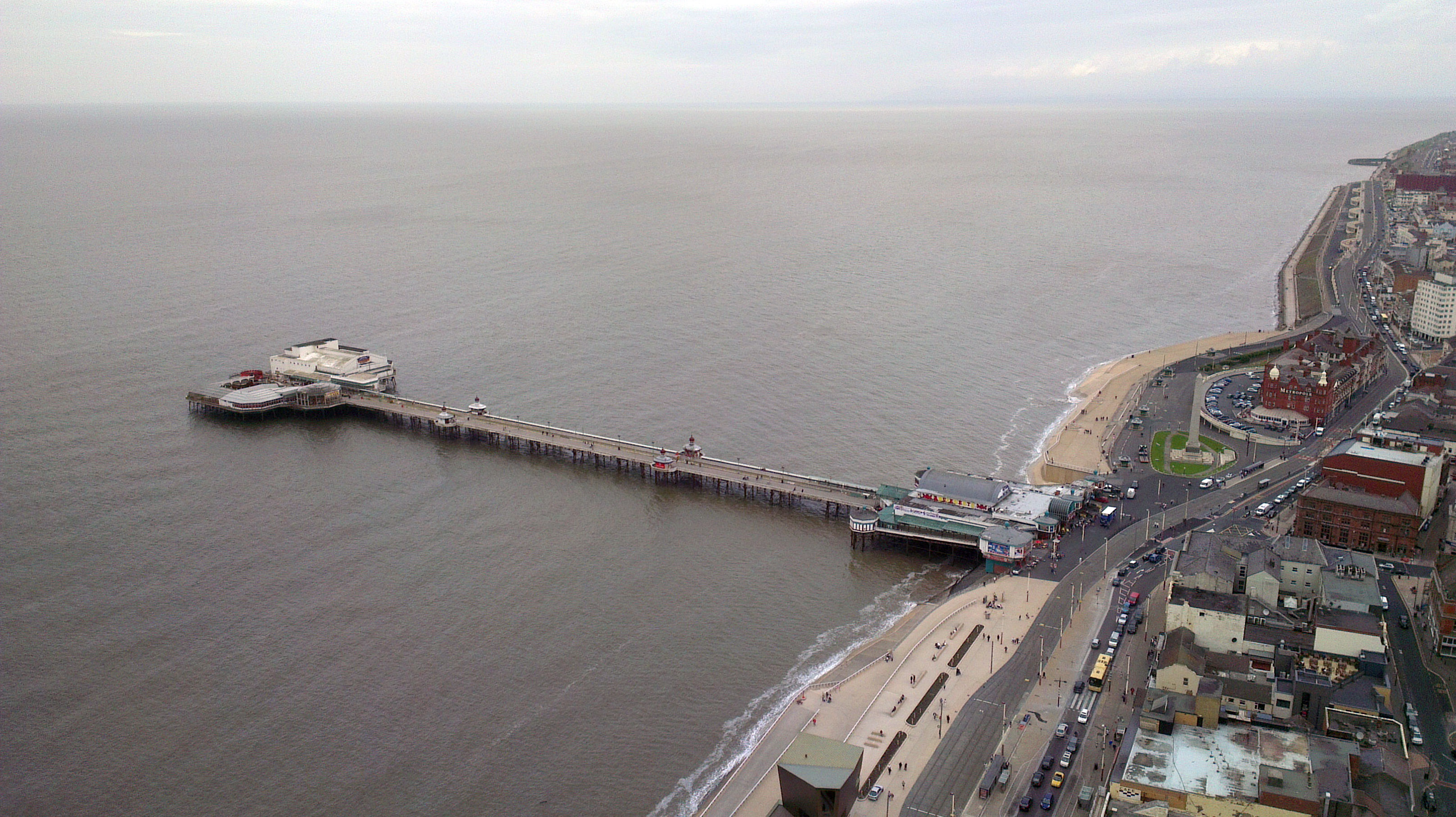 As viewed from Blackpool Tower